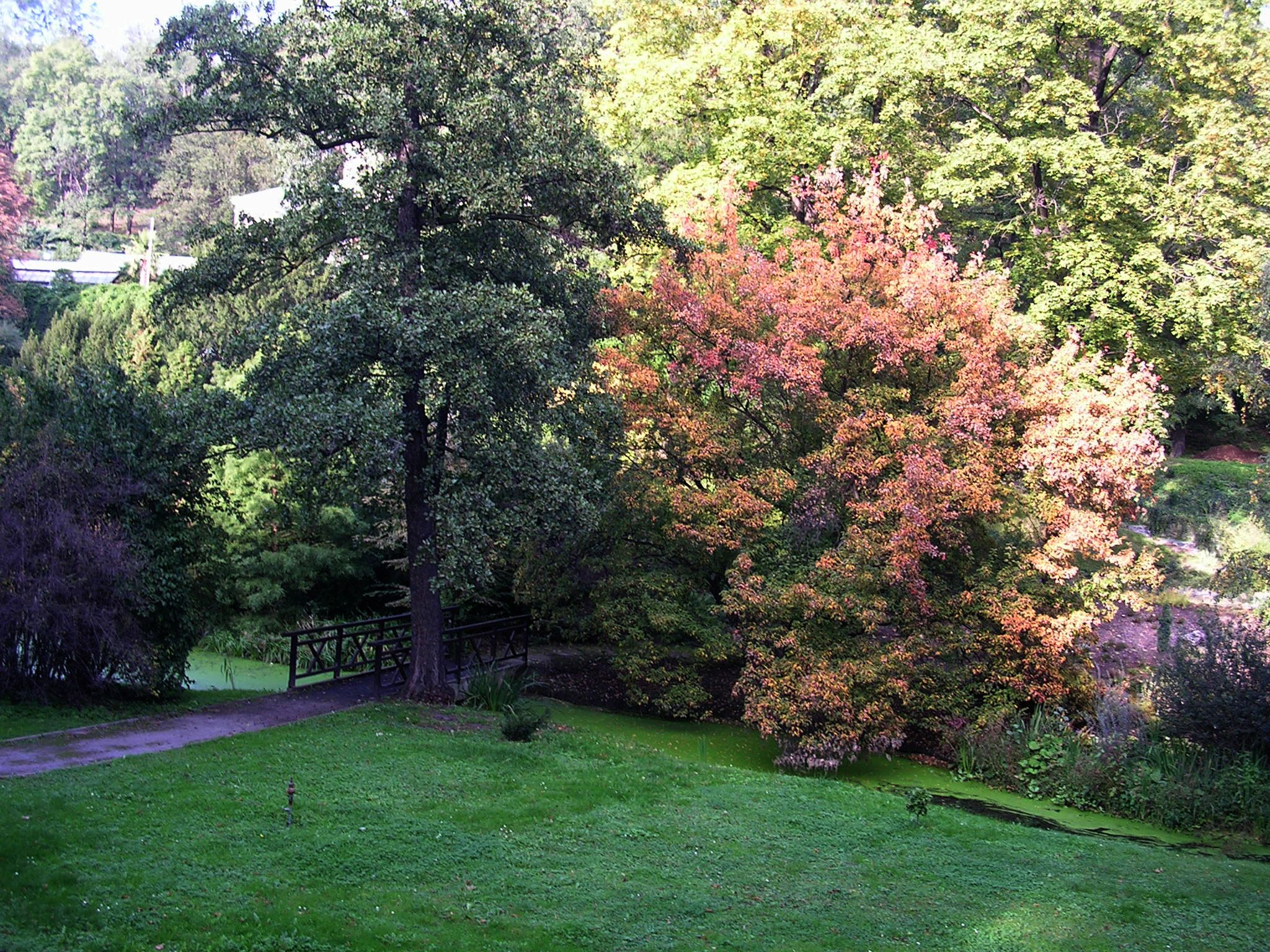 Prague-Malešice, Czech Republic. School botanic gardens.